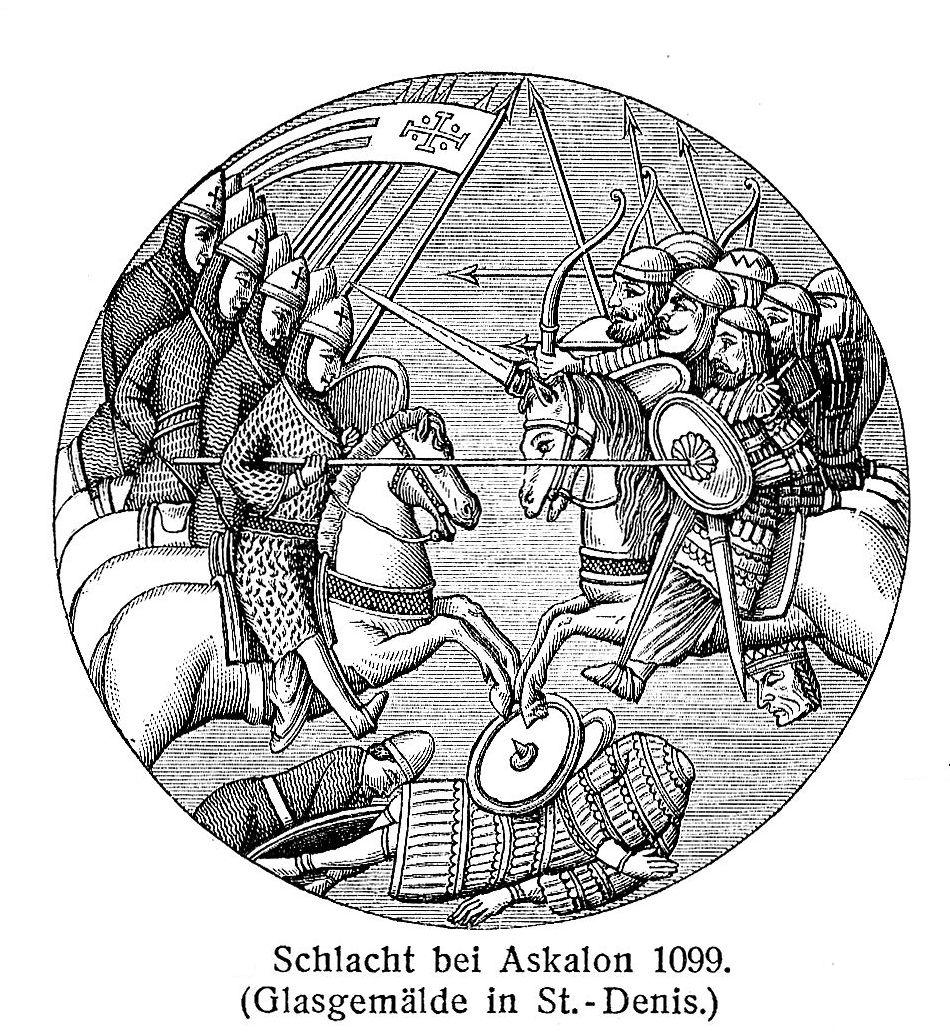 Battle of Ascalon, glaspainting in St. Denis. Knights on the left, Egyptians on the right